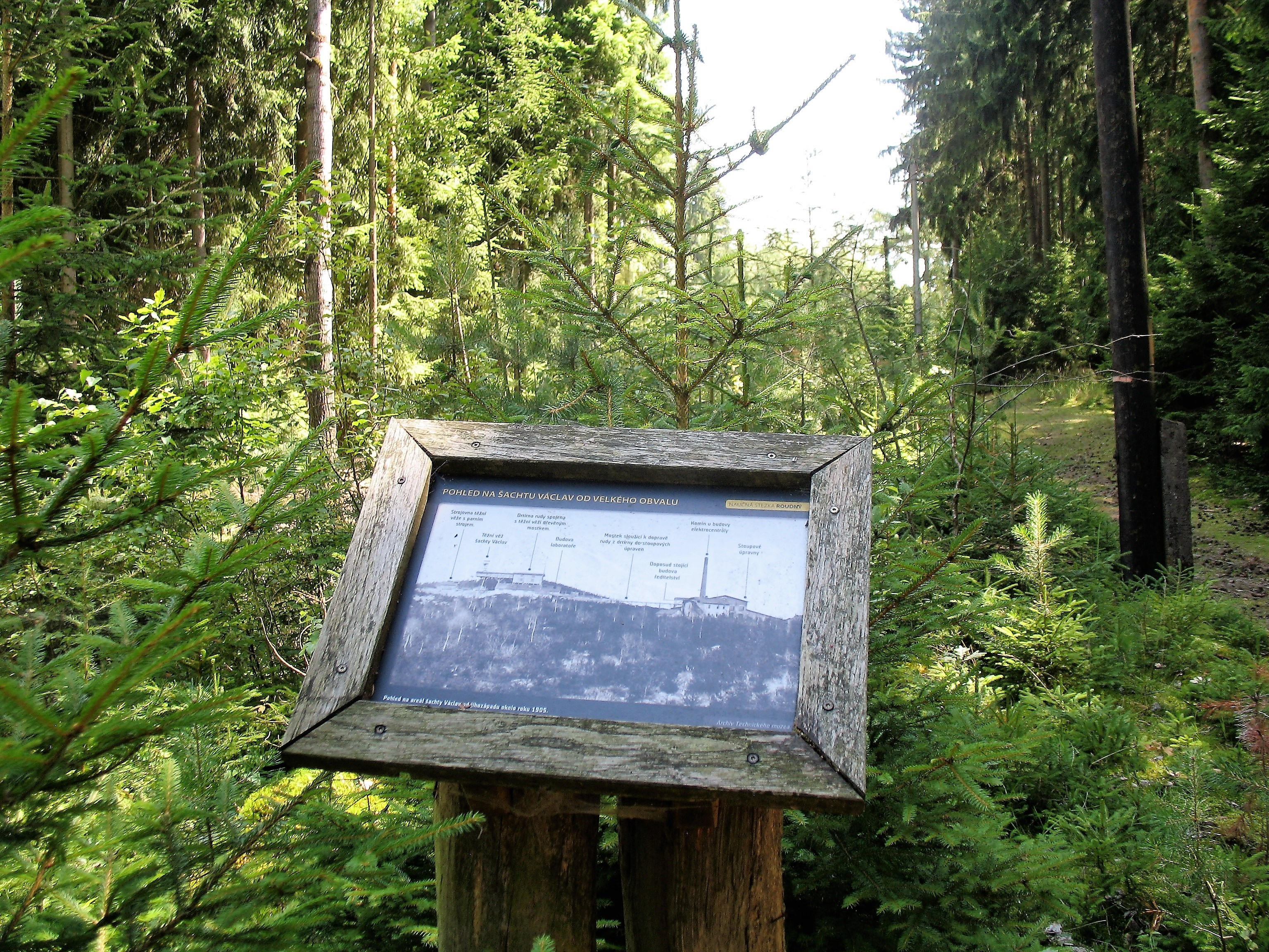 Former Roudný gold mine, Central Bohemia